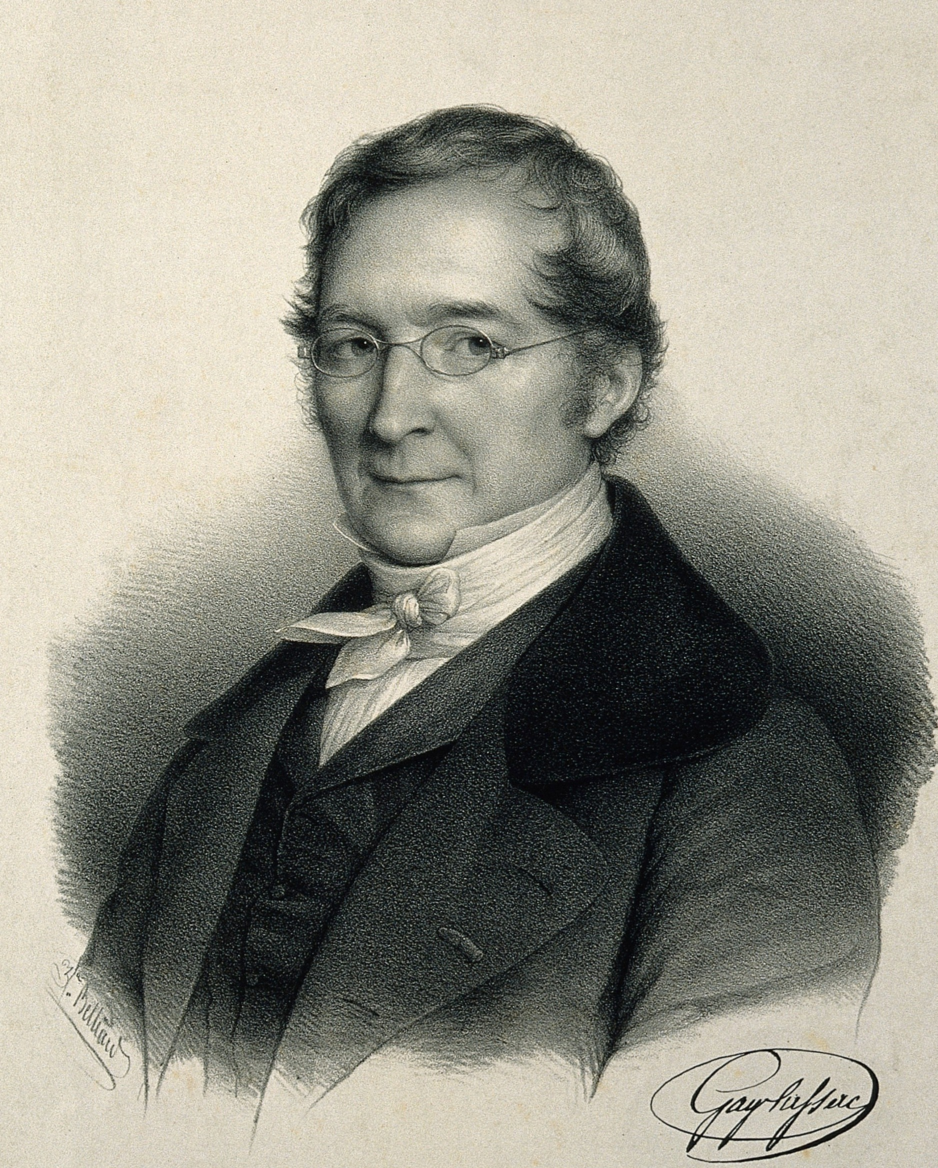 Portrait of Joseph Louis Gay-Lussac, French physicist and chemist